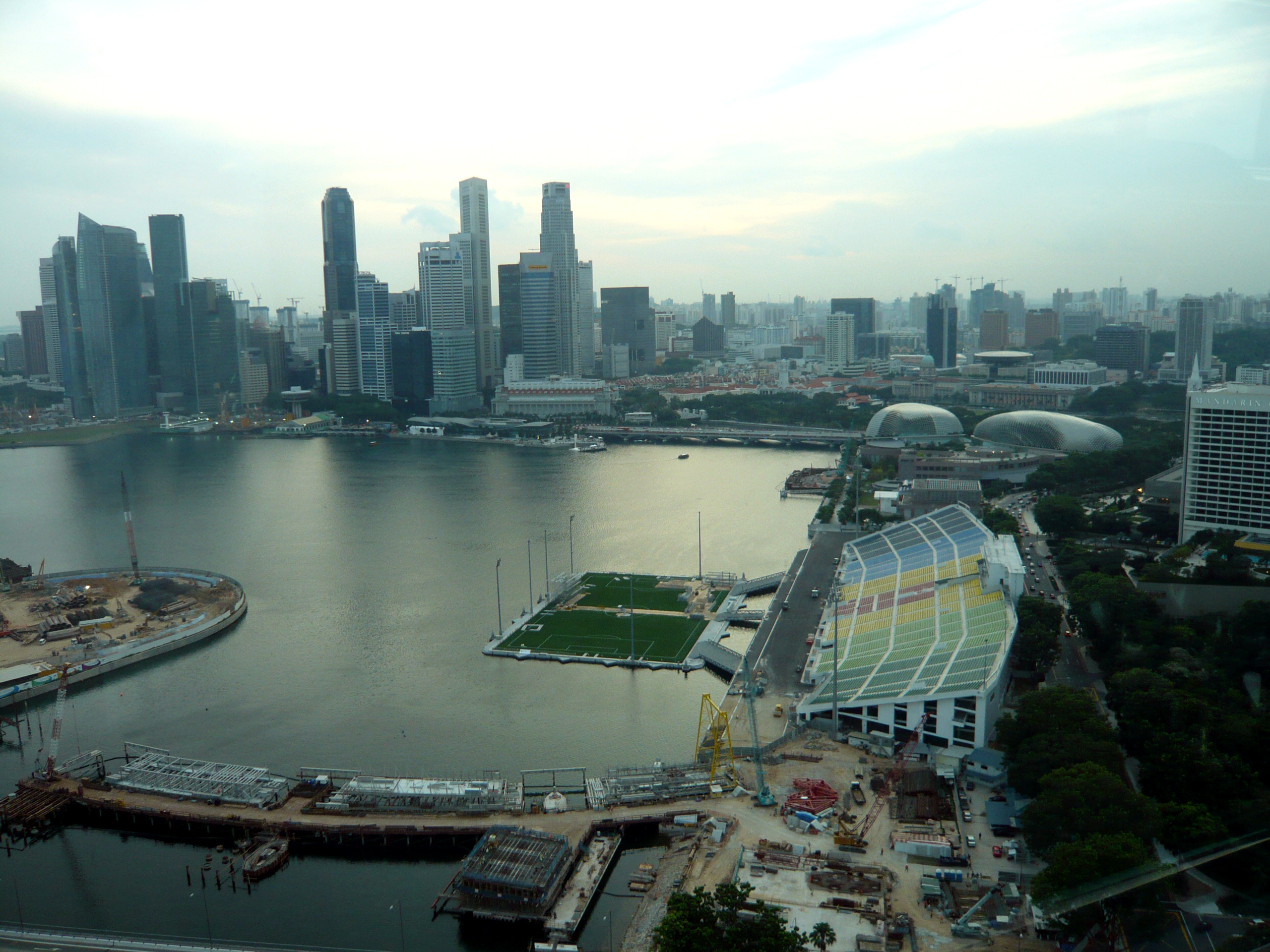 Singapore Flyer View 1